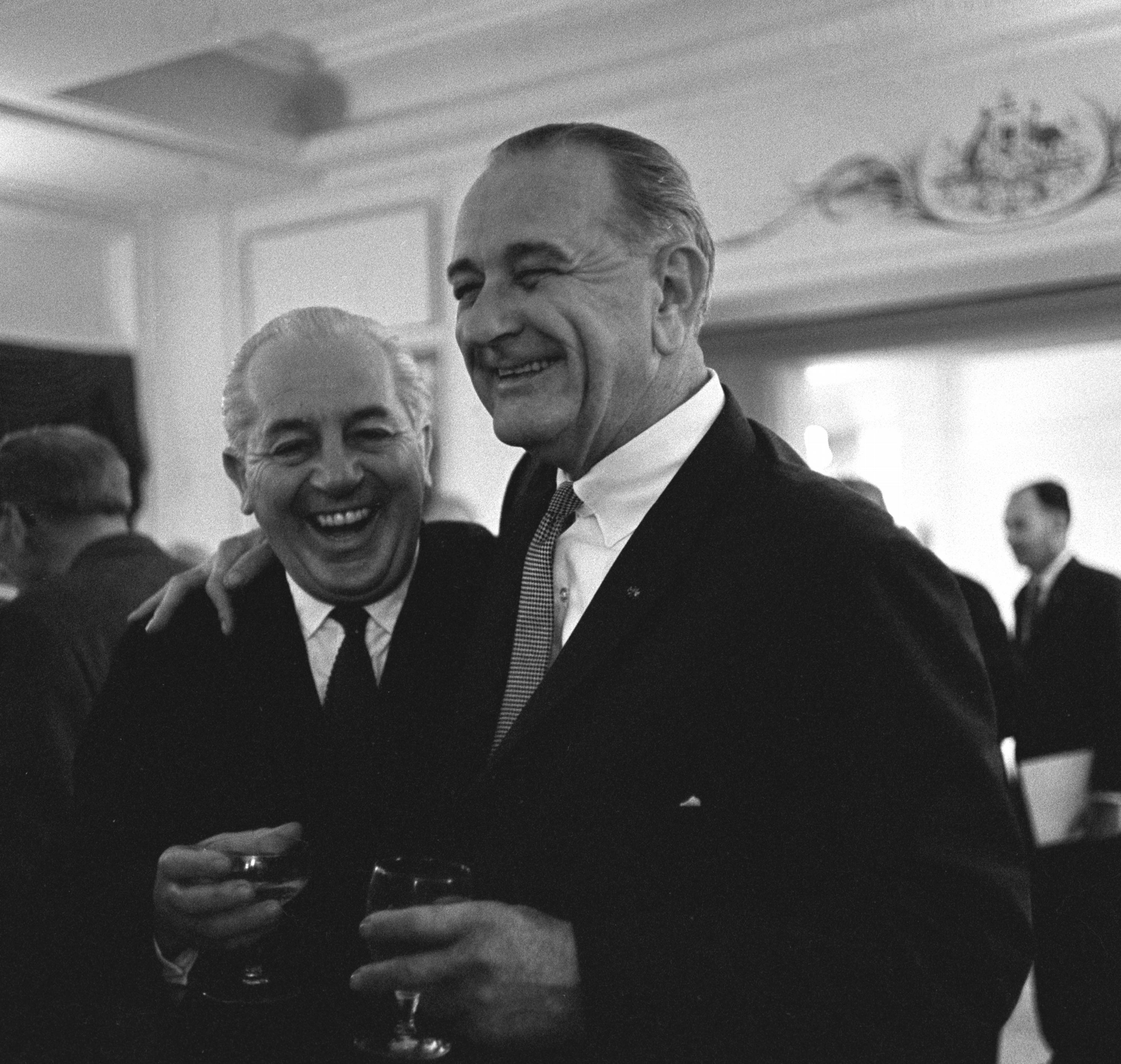 Harold Holt and Lyndon B. Johnson at reception